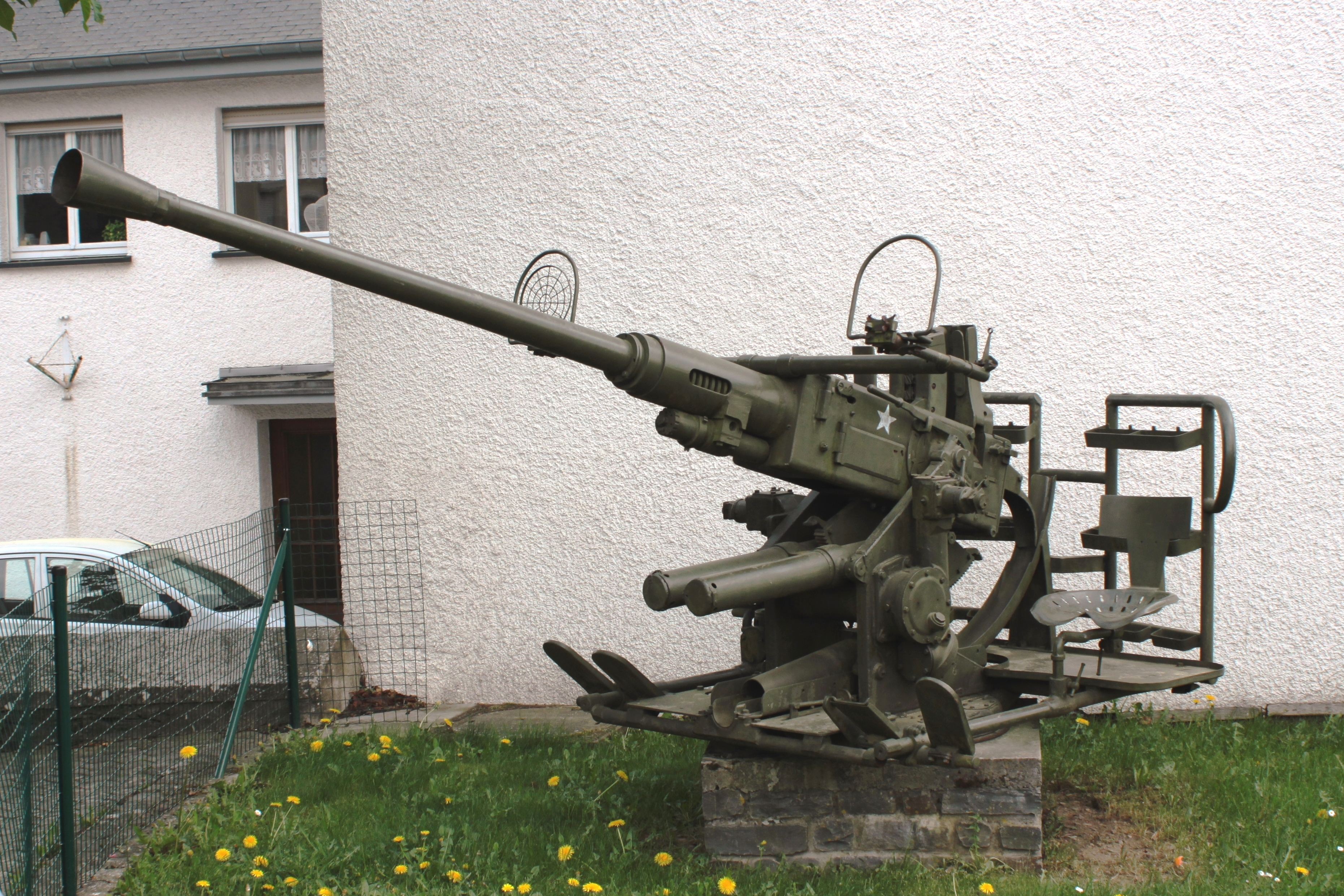 World War II anti-aircraft cannon in Perlé (Luxembourg)